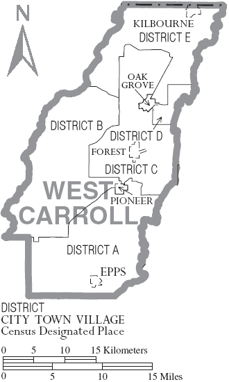 Map of West Carroll Parish, Louisiana, United States with municipal and district boundaries